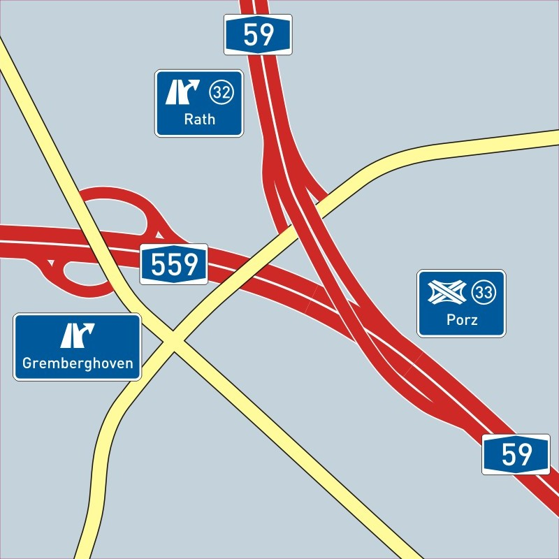 Schematic drawing of the motorway junction Dreieck Porz in Cologne, Germany. It is built as a forking.